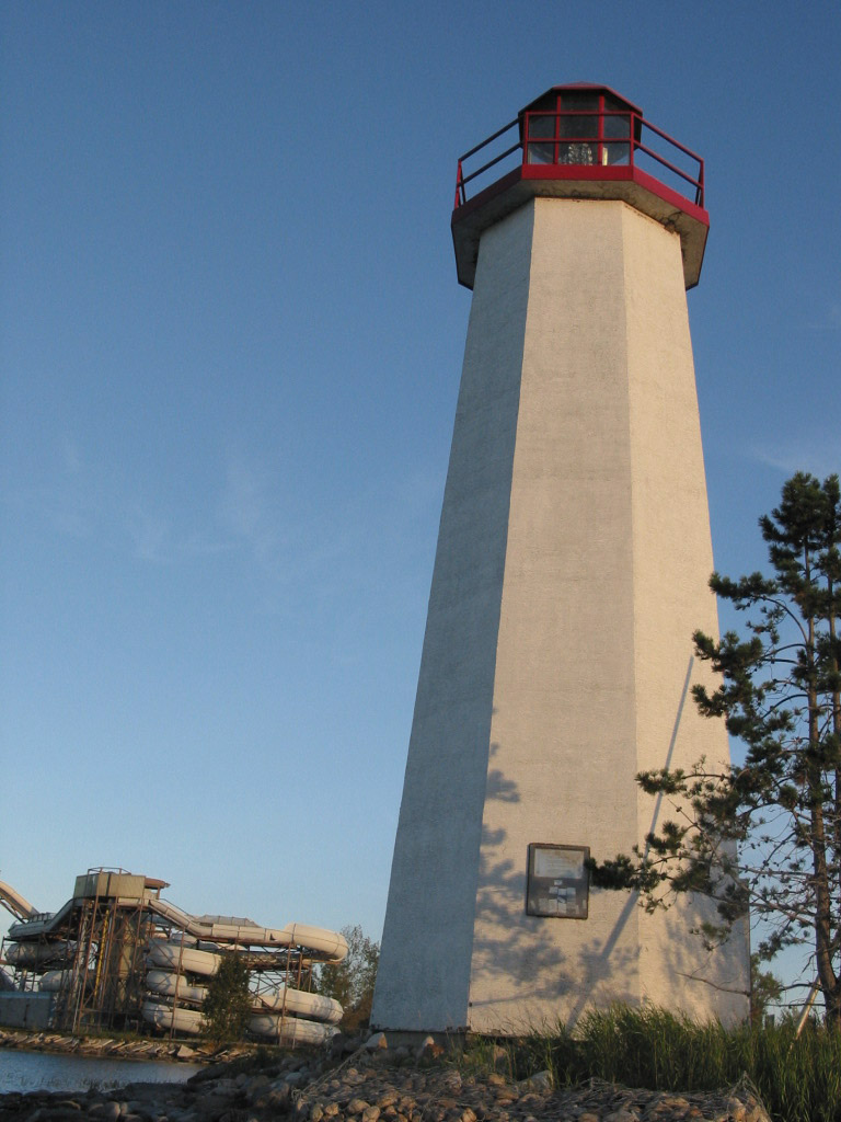 The Sylvan Lake Lighthouse in Alberta, Canada with Wild Rapids Waterslides visible in the background. Date: September 22, 2001 at 7:00 PM Author: Kor Nielsen